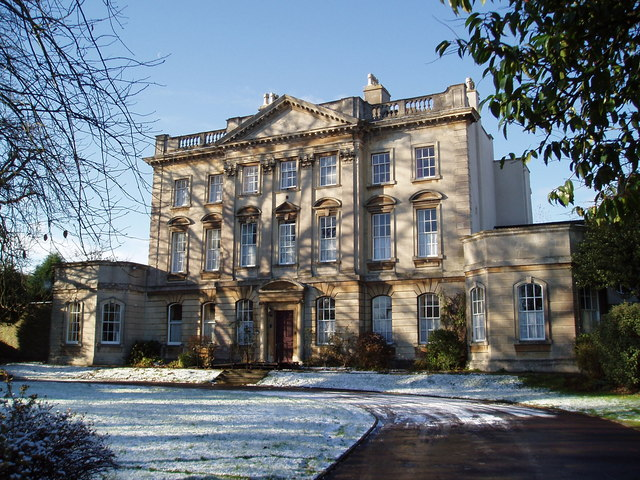 Frenchay Manor House Palladian style house built c.1736 for Joseph Beck, a wealthy Quaker merchant.